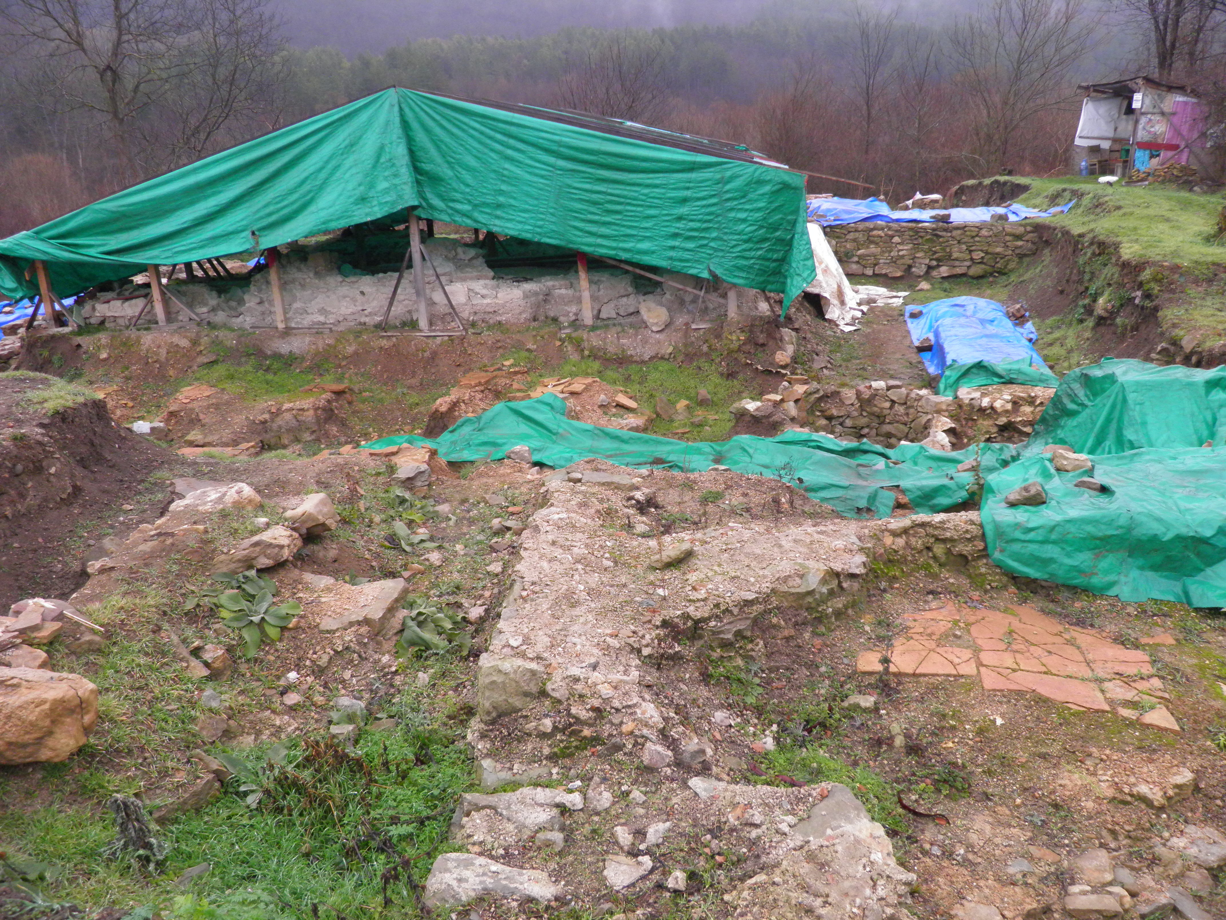 Monastery in Frenkhissar